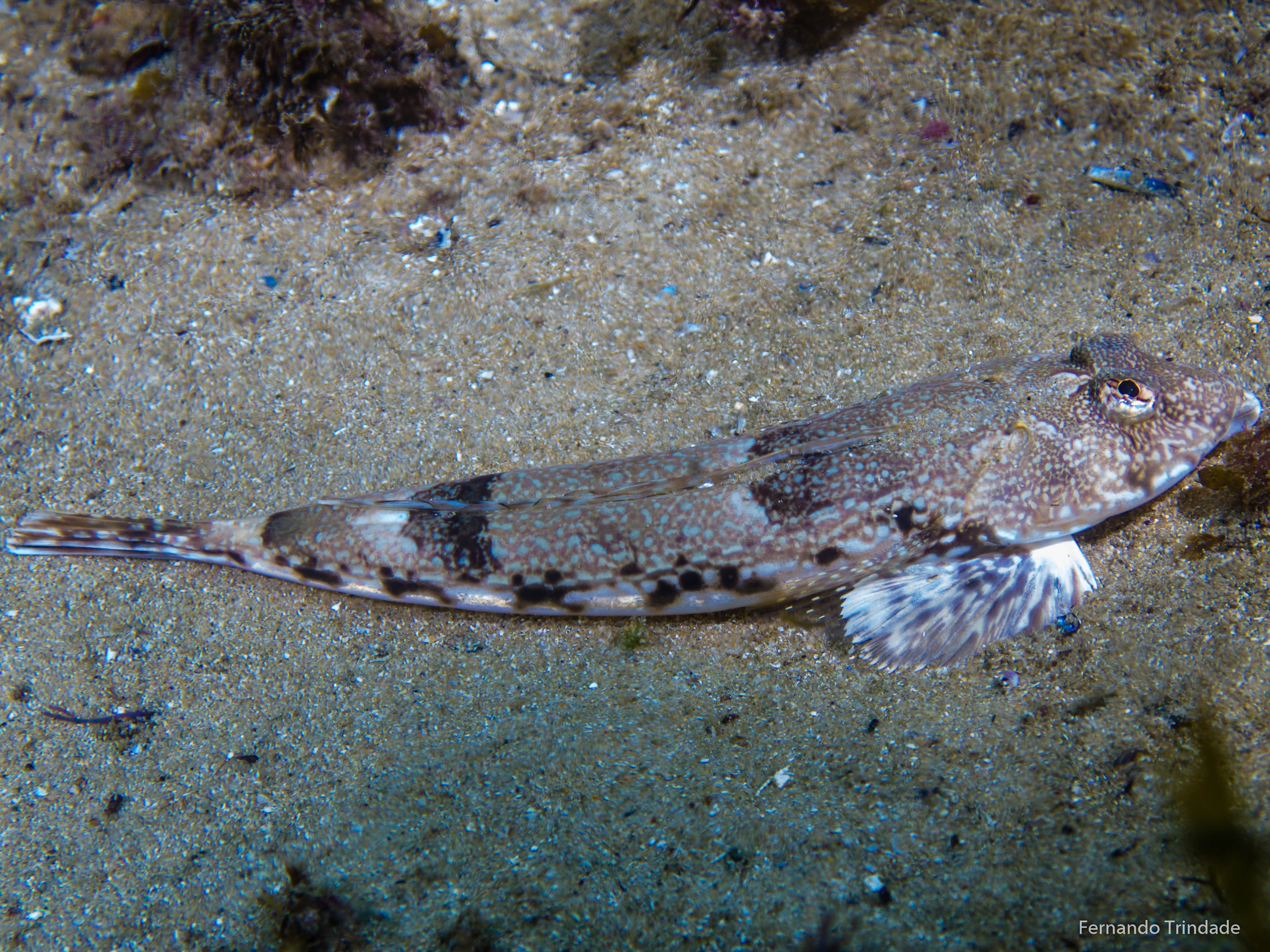 Portugal, Sesimbra, Portugal, 2013.09.01 12meters deep, by Fernando trindade